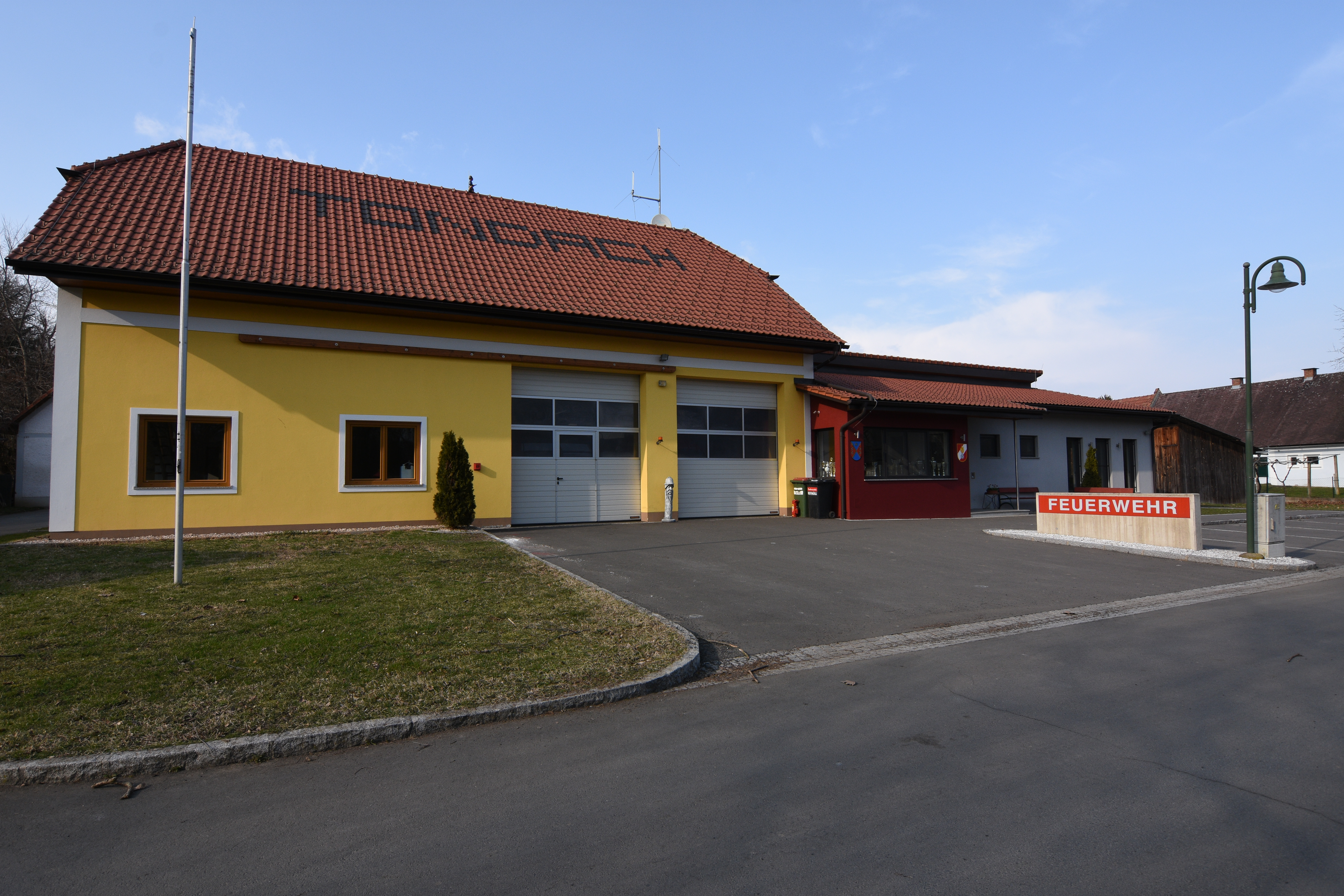 Firebrgarde Weitersfeld an der Mur